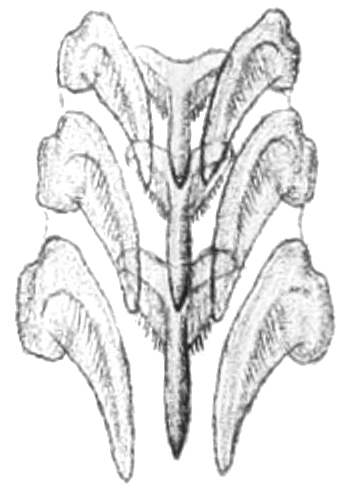 Drawing of detail of radula of Limacina helicina showing three rows of teeth. Magnified 190×.